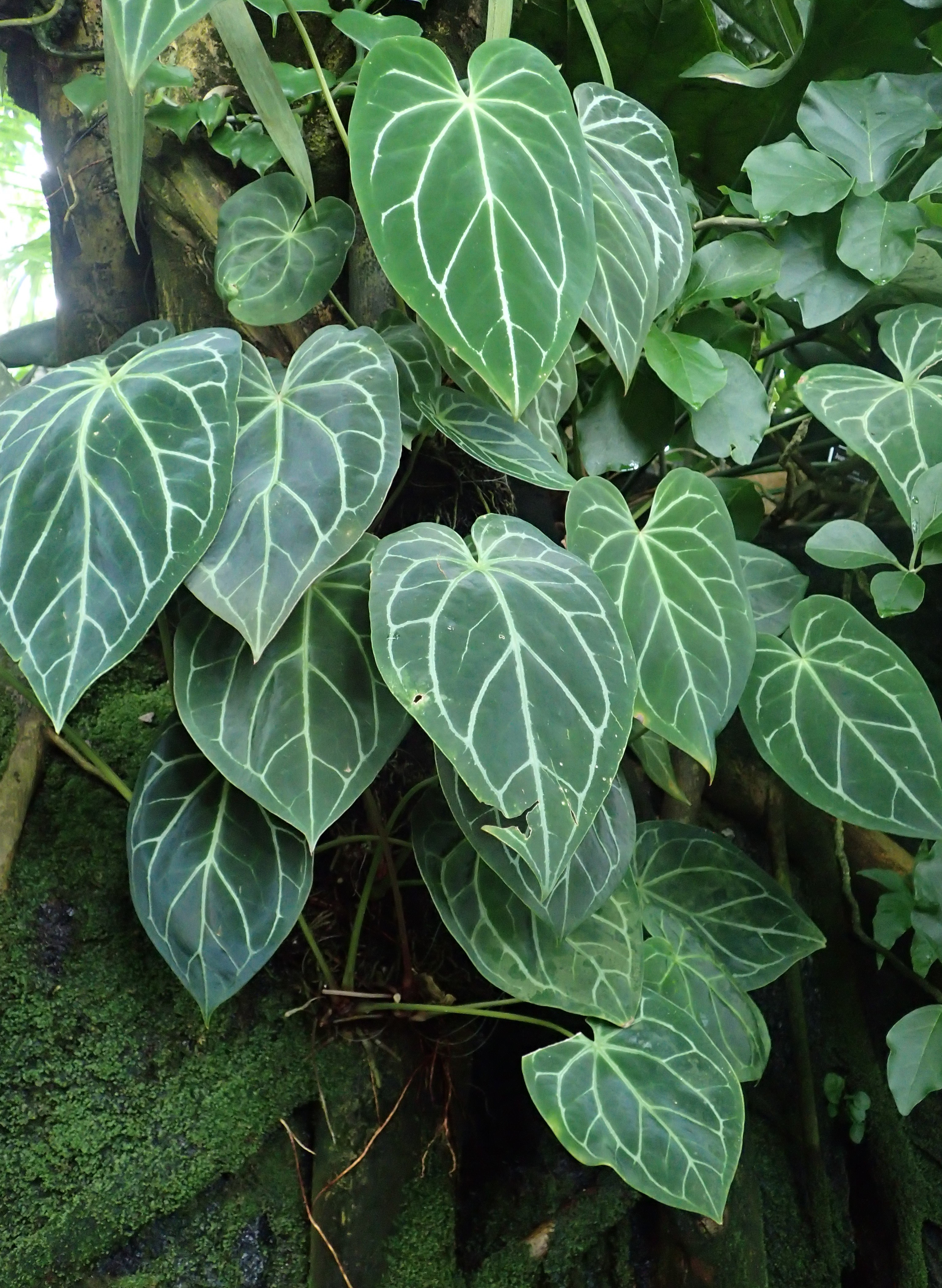 Anthurium magnificum in the New York Botanical Garden